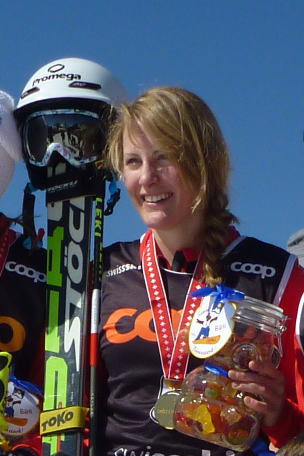 Fanny Smith at the Final in Veysonnaz 2019